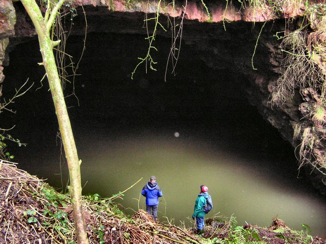 Iron Ore Mine The Blue Trousers contrast with the drab, now flooded forbidding entrance which gave access to miles of underground workings to this mine known as 'Daylight Hole'.